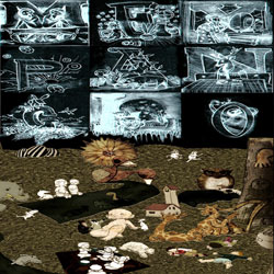 Dave Tucker/ Ricardo Tejero /Julian Bonequi Gianfranco Bonadies cover art